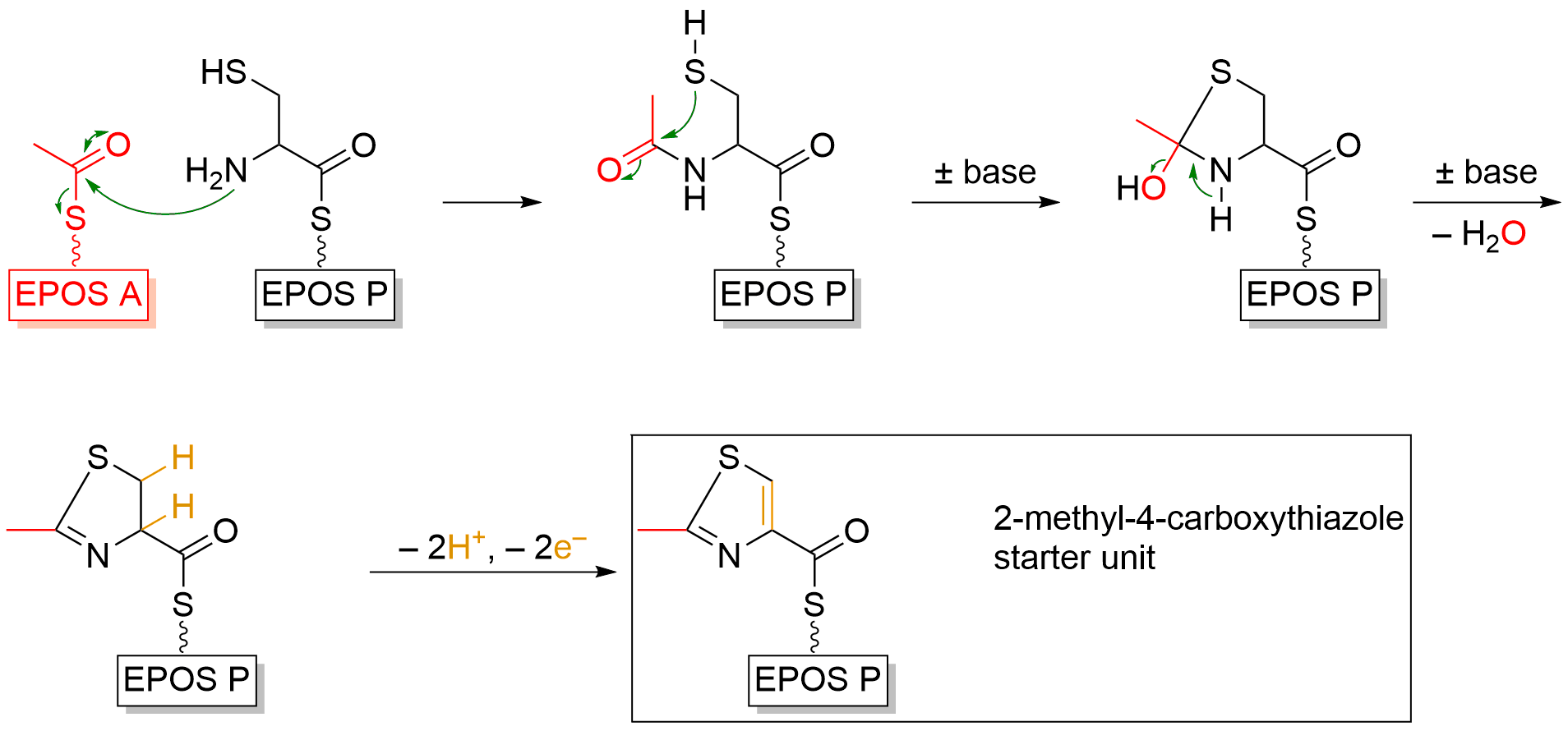 Formation of 2-methyl-4-carboxythiazole starter unit during epothilone biosynthesis according to István Molnár, Thomas Schupp, et al. in 2000. The file was made with ChemBioDraw Ultra 14. The digital object identifier of the reference is This image is intended to replace the original one ( made by Cuigy because it is in graphics interchange format having lower quality.